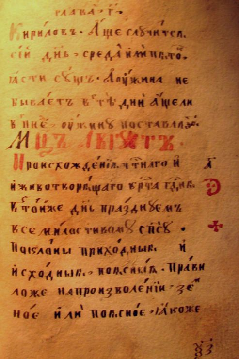 Russian handwritten menologion